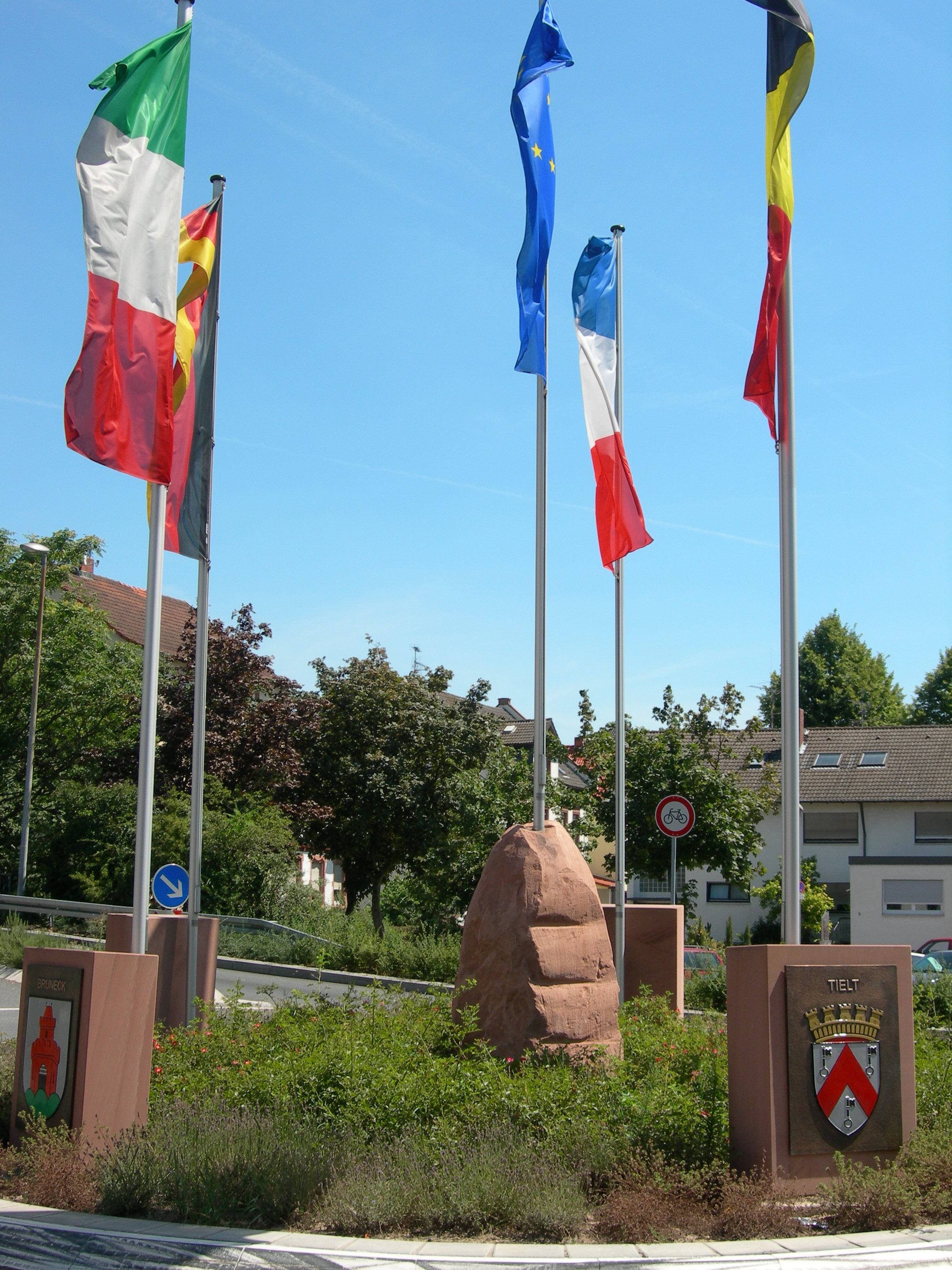 Groß-Gerau (Hesse), coats of arms of the twin towns Bruneck and Tielt